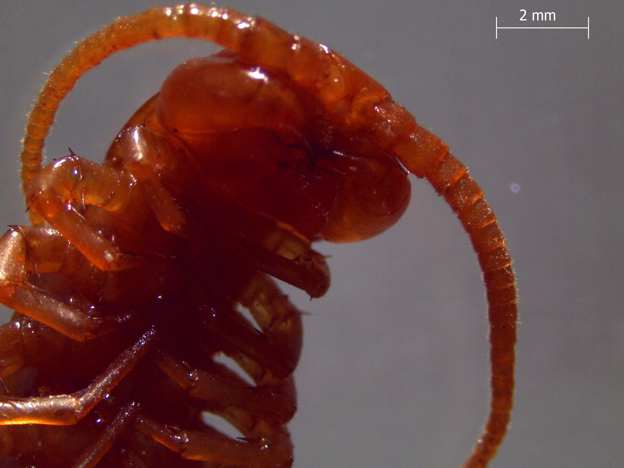 Eupolybothrus transsylvanicus from W Serbia. Српски (ћирилица): Eupolybothrus transsylvanicus из околине Ваљева (З Србија).